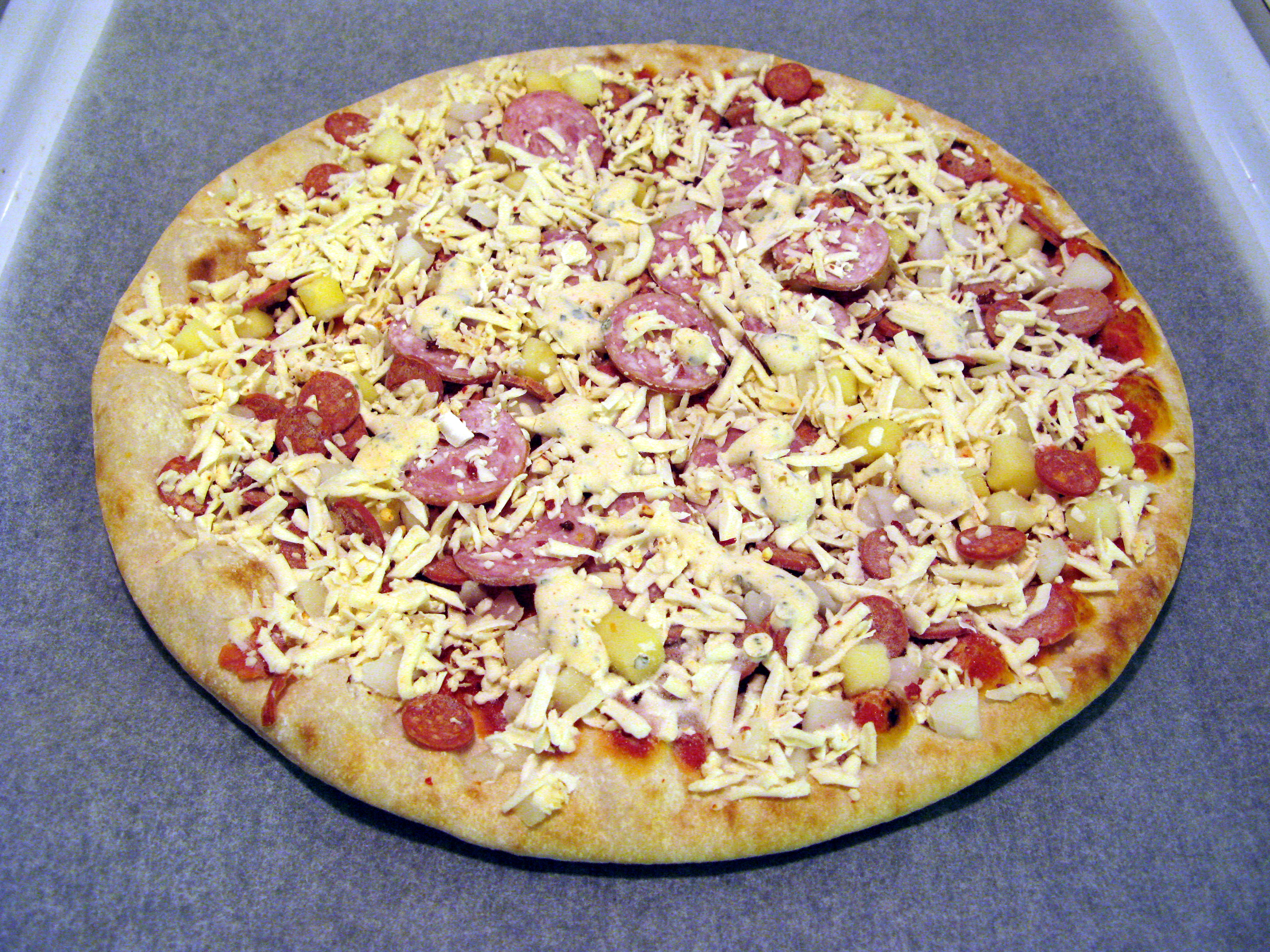 Frozen Grandiosa Doublesalami -pizza before baking